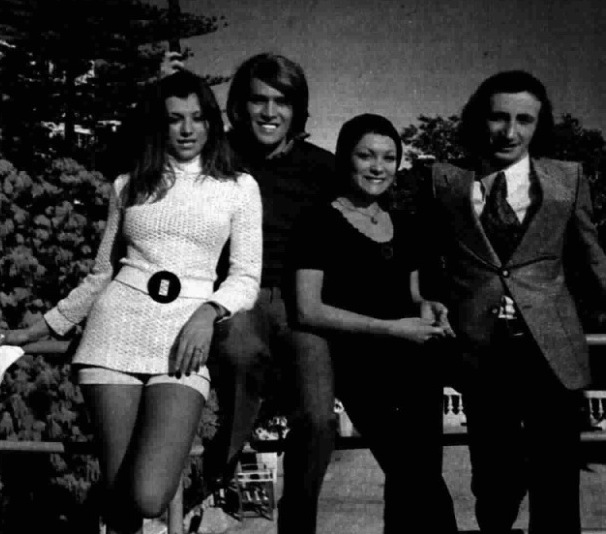 Italian band Ricchi e Poveri in Sanremo for the 1971 Sanremo Music Festival